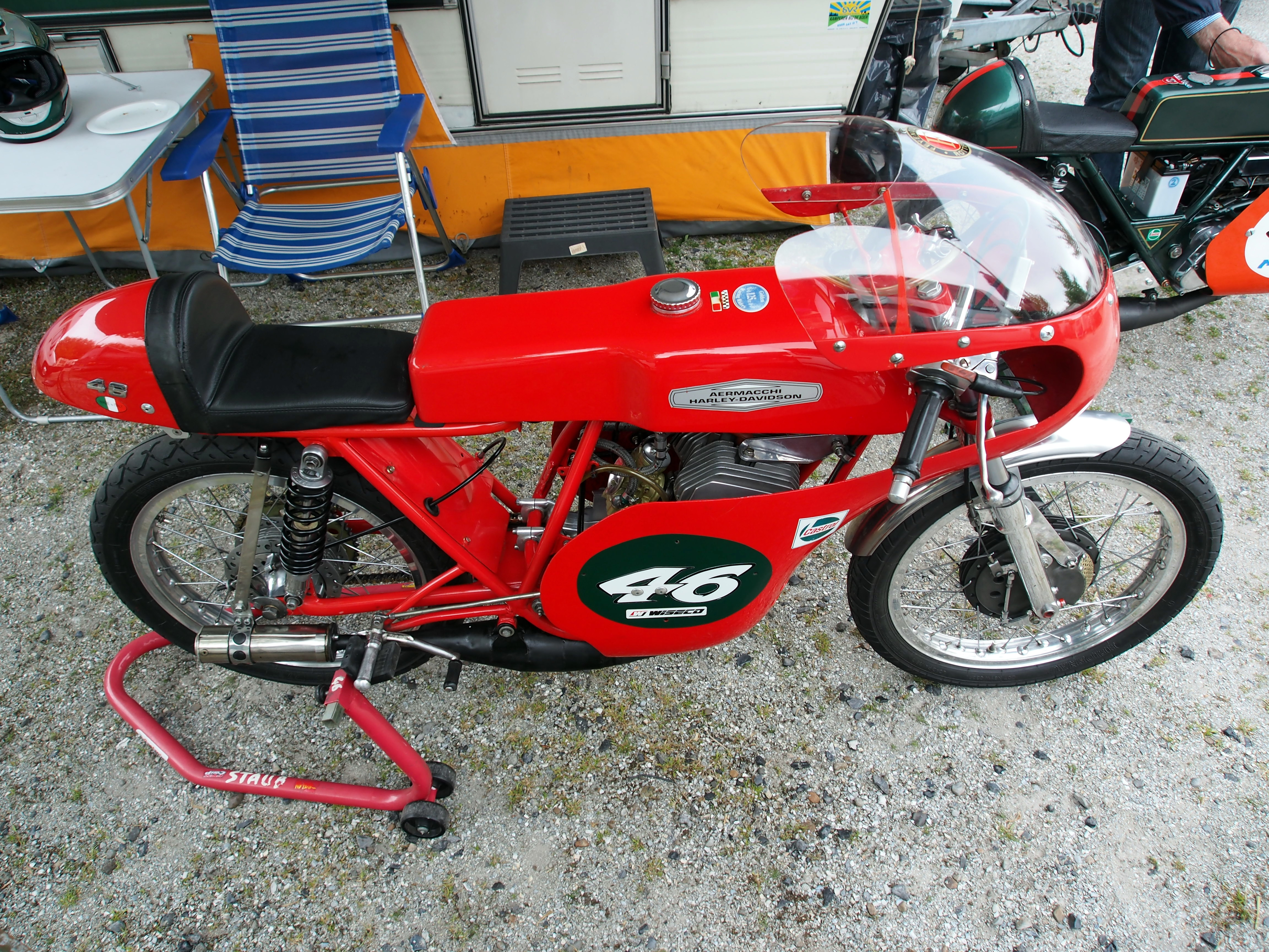 Photographed at Rockanje, The Netherlands.